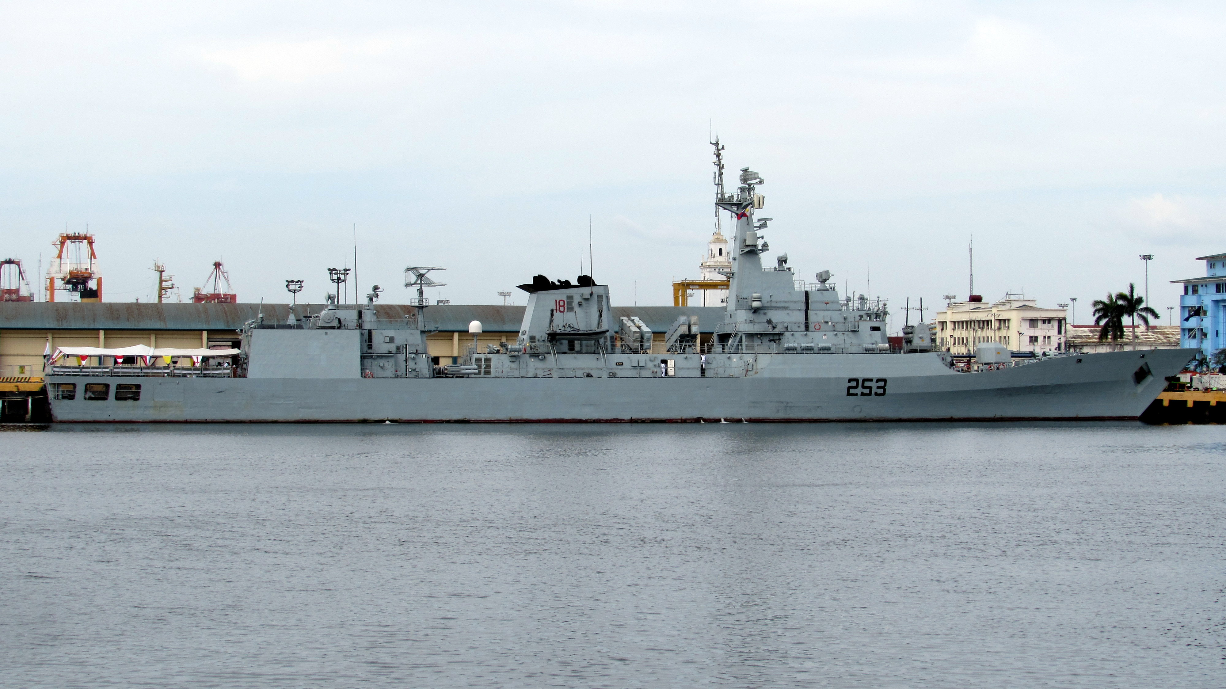 A side view of the PNS Saif (253), an F-22P Zulfiquar (Sword) class Frigate of the Pakistan Navy. Photo taken at the Manila South Harbor.